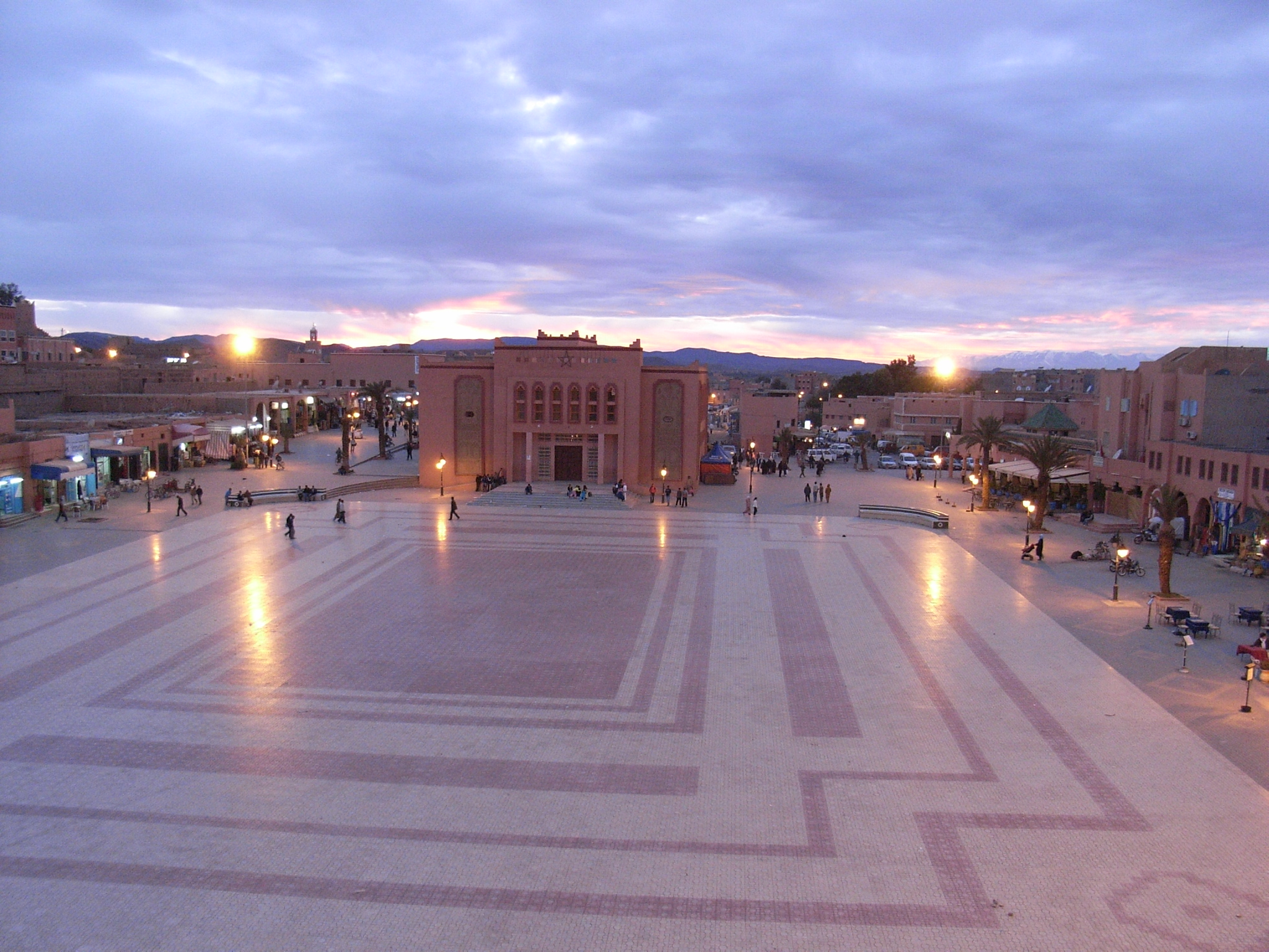 Marocco, Ouarzazate - Main Square